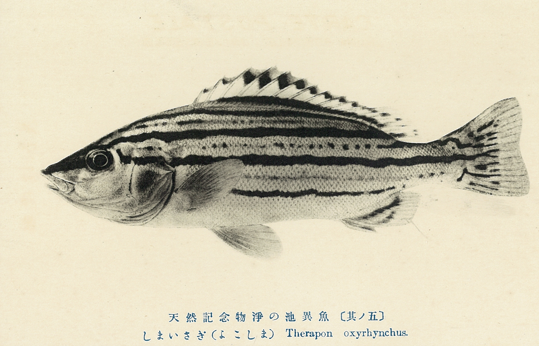 Jono-ike pond postcard. Rhynchopelates oxyrhynchus.1936